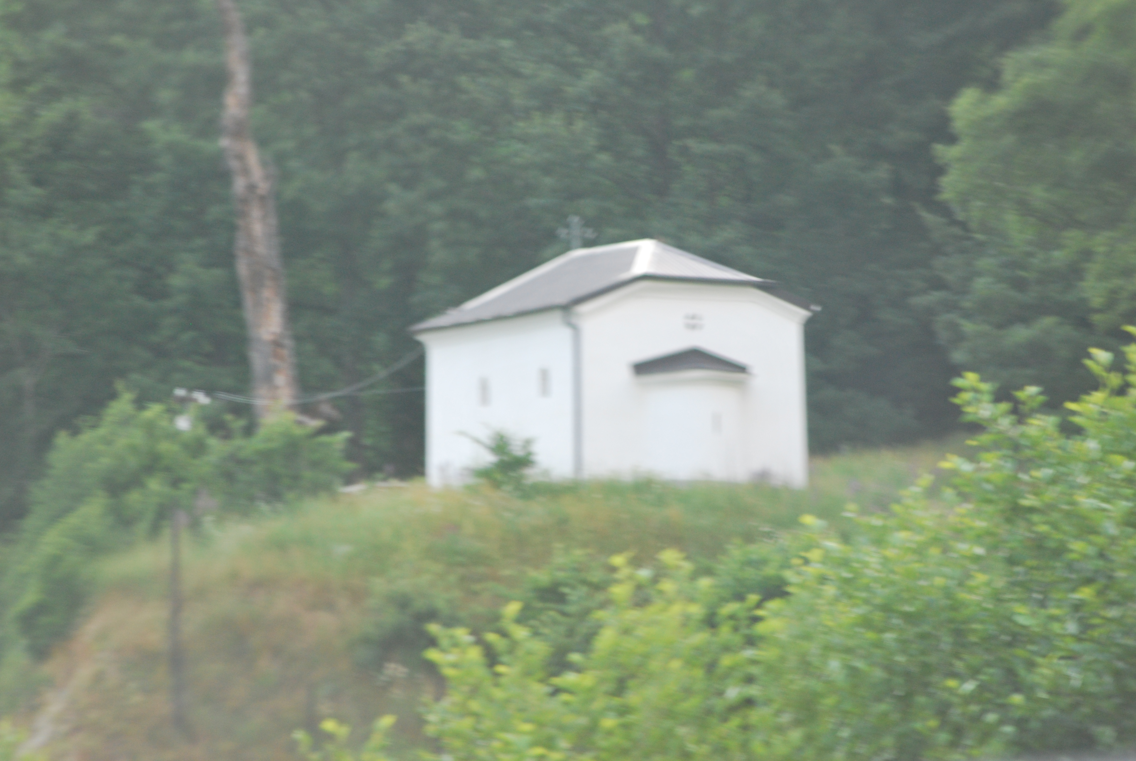 St.Petka church in Tajmište, Macedonia